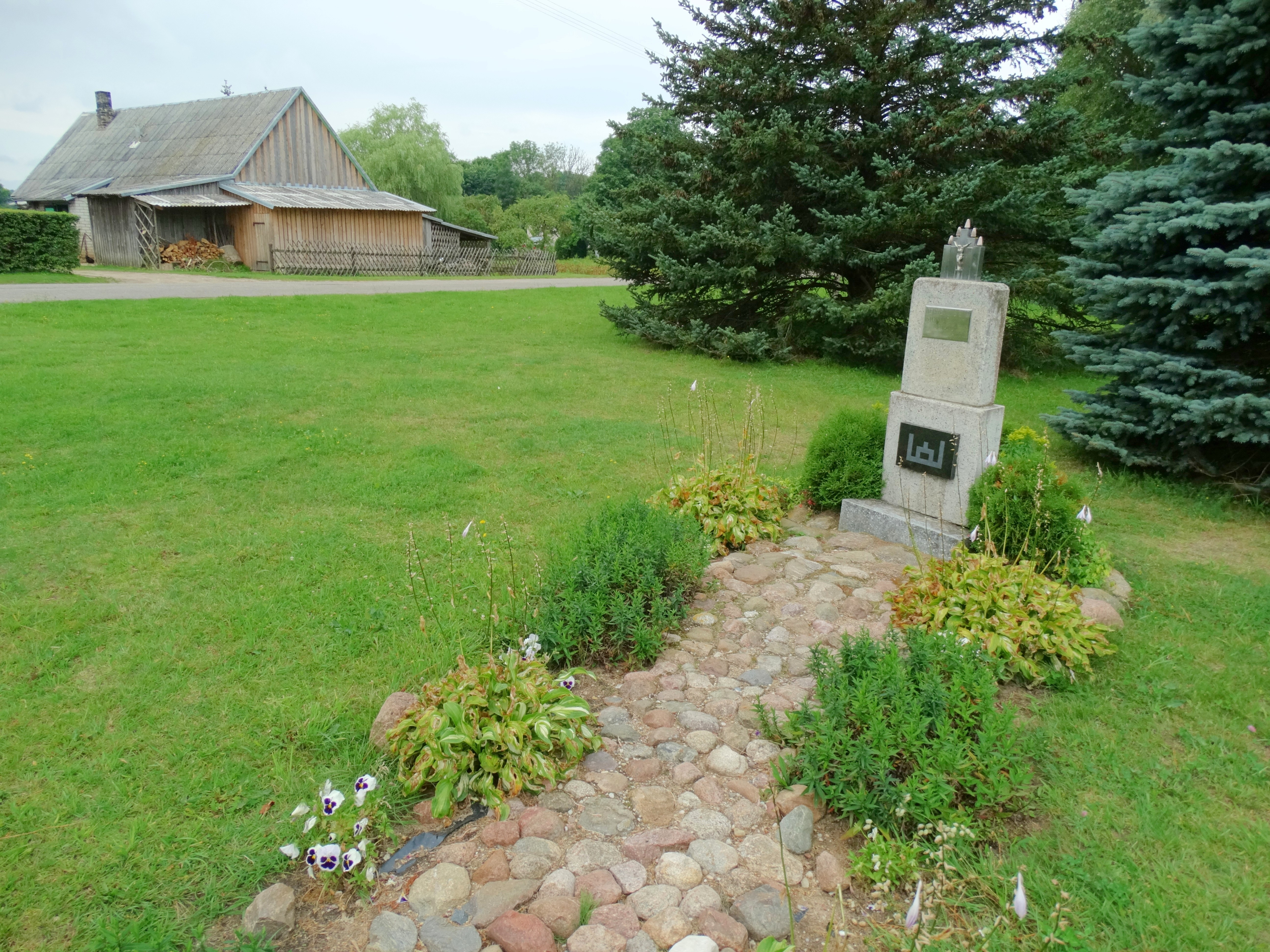 Monument in Palnosai, Mažeikiai district, Lithuania